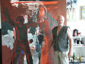 Jan van Krieken - van Huessen